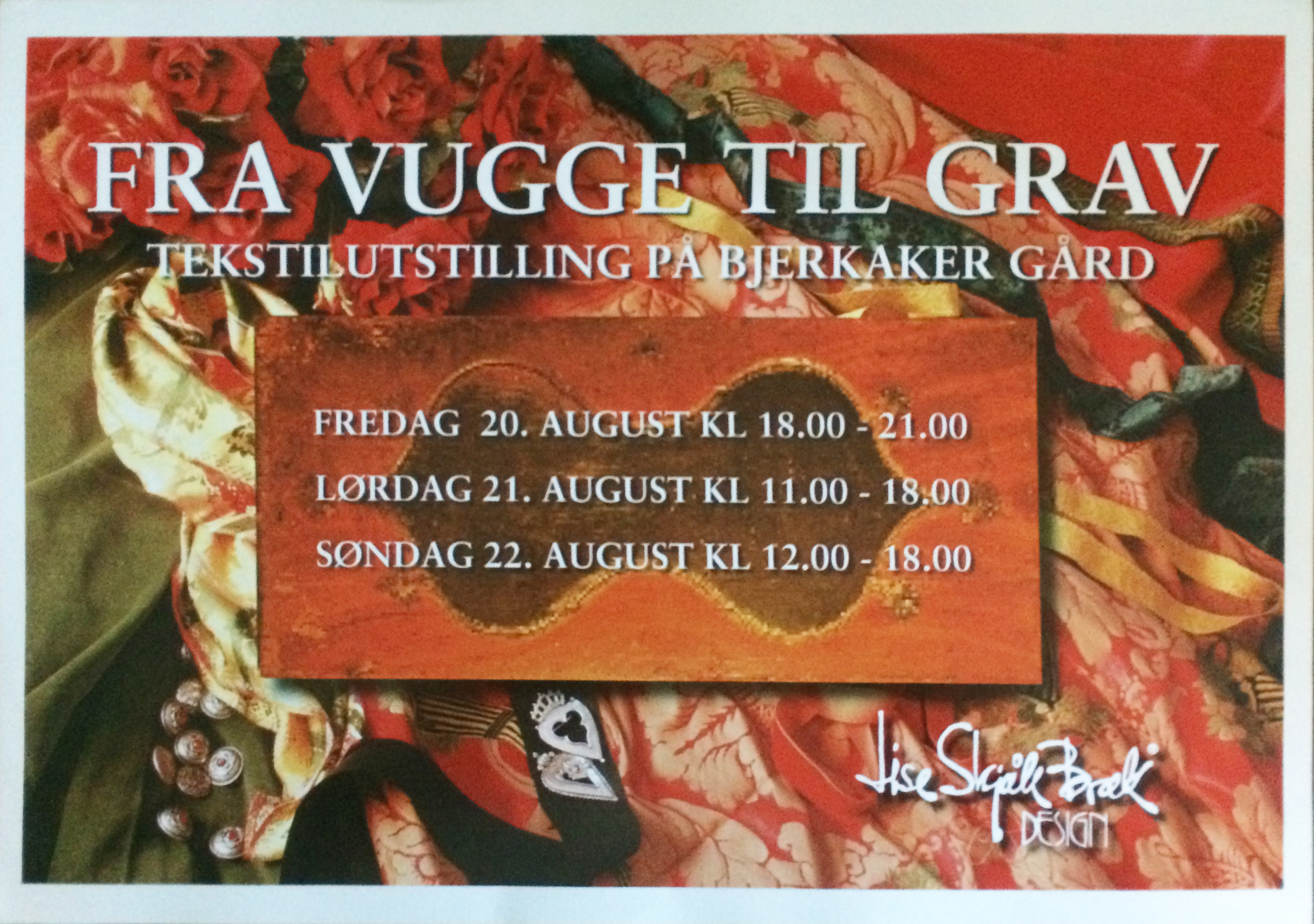 Poster for one of the Norwegian designer Lise Skjåk Bræk's exhibitions. Her own design